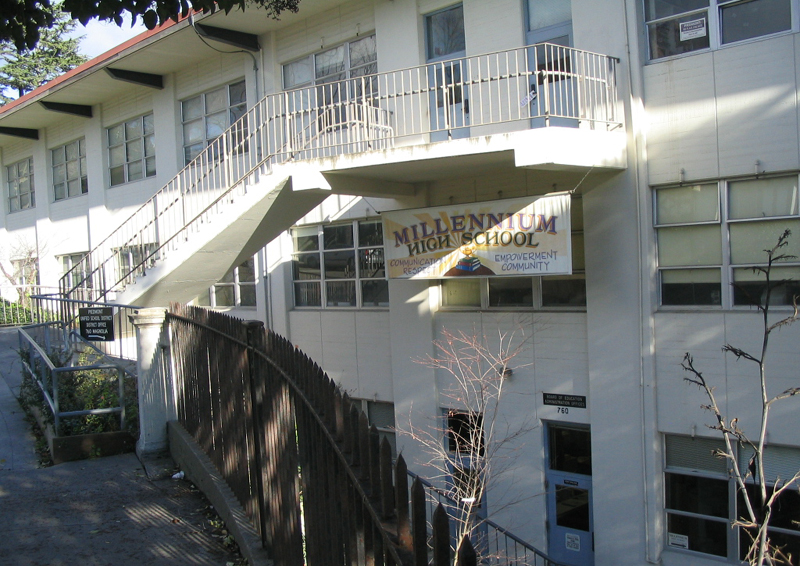 Millennium High School in Piedmont Photo taken February 23, 2007.